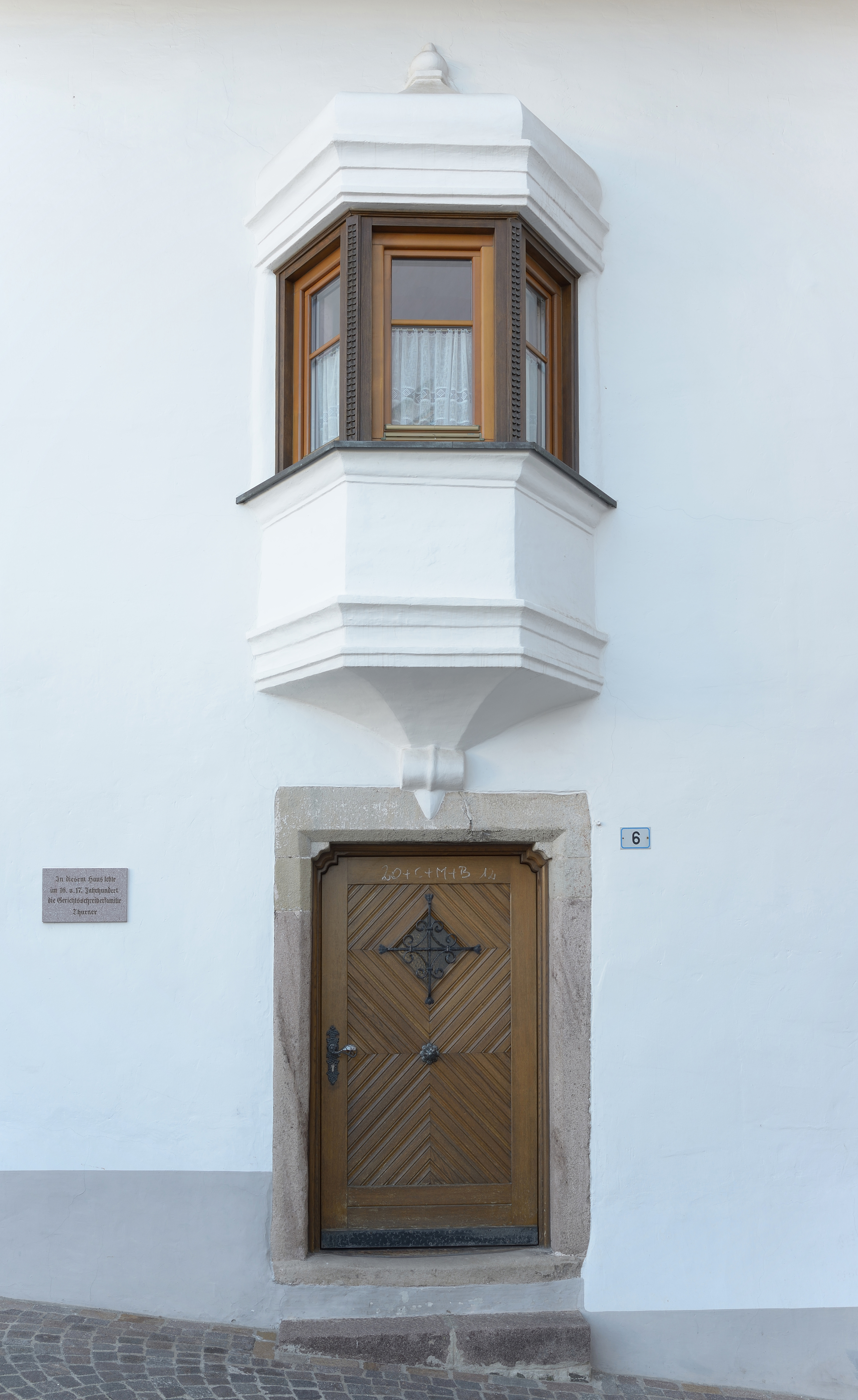 House Koflgasse 6 in Kastelruth 16th century